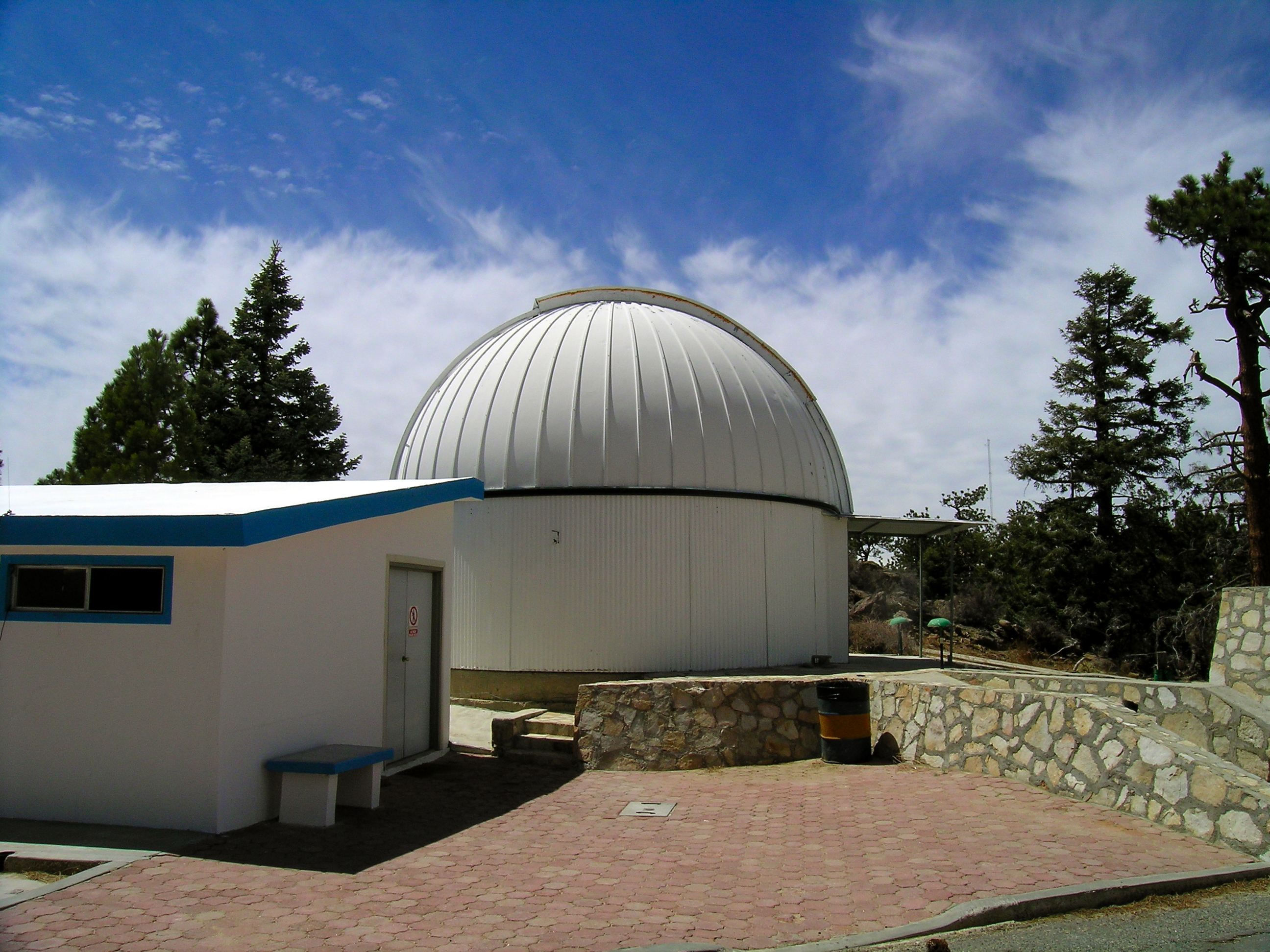 The 1.5m Ritchey Chrétien reflecting telescope in San Pedro Martir Observatory. Installed in 1970 with the enthusiastic support of Harold Johnson from the University of Arizona.